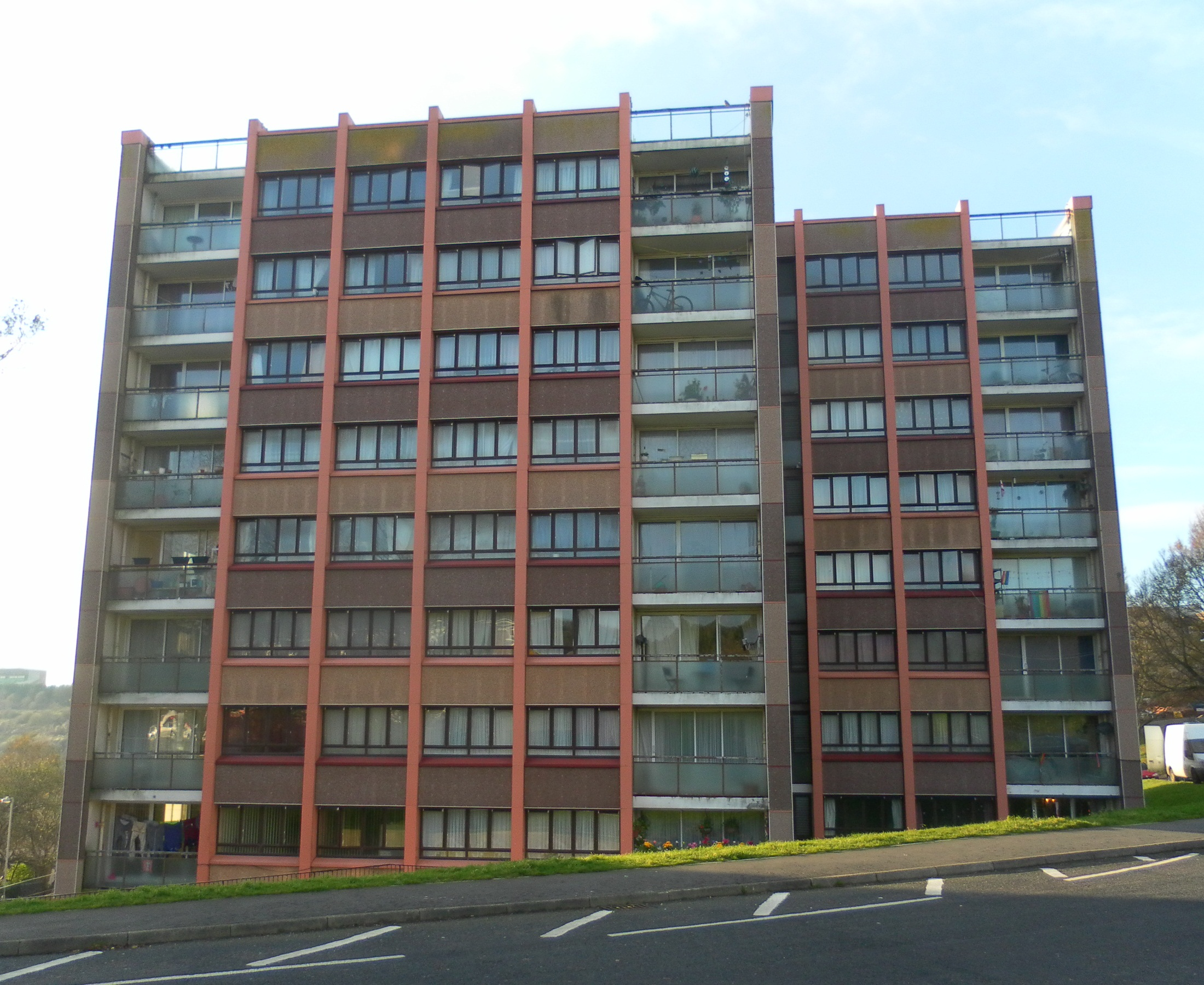 One of the large blocks of flats making up the Swanborough Flats in Whitehawk, a housing estate in the City of Brighton and Hove, England. These date from the late 1960s.